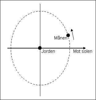 Variational orbit: nearly an ellipse, with the Earth at the center. The diagram illustrates the perturbing effect of the Sun on the Moon's orbit, using some simplifying approximations, e.g. that in the absence of the Sun, the Moon's orbit would be circular with the Earth at its center